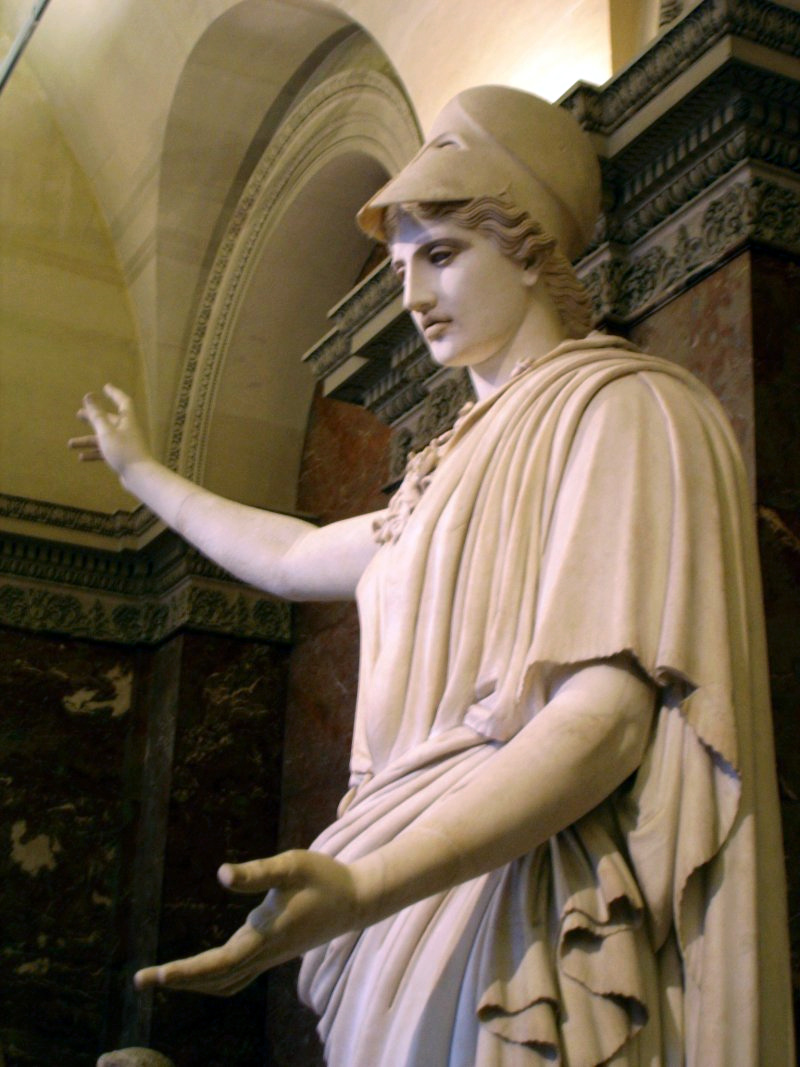 So-called "Velletri Pallas": Helmeted Athena. Marble with traces of red colour, Roman copy of the 1st century CE after a bronze original of the 5th century. Found in 1797 in the ruins of a Roman villa near Velletri.